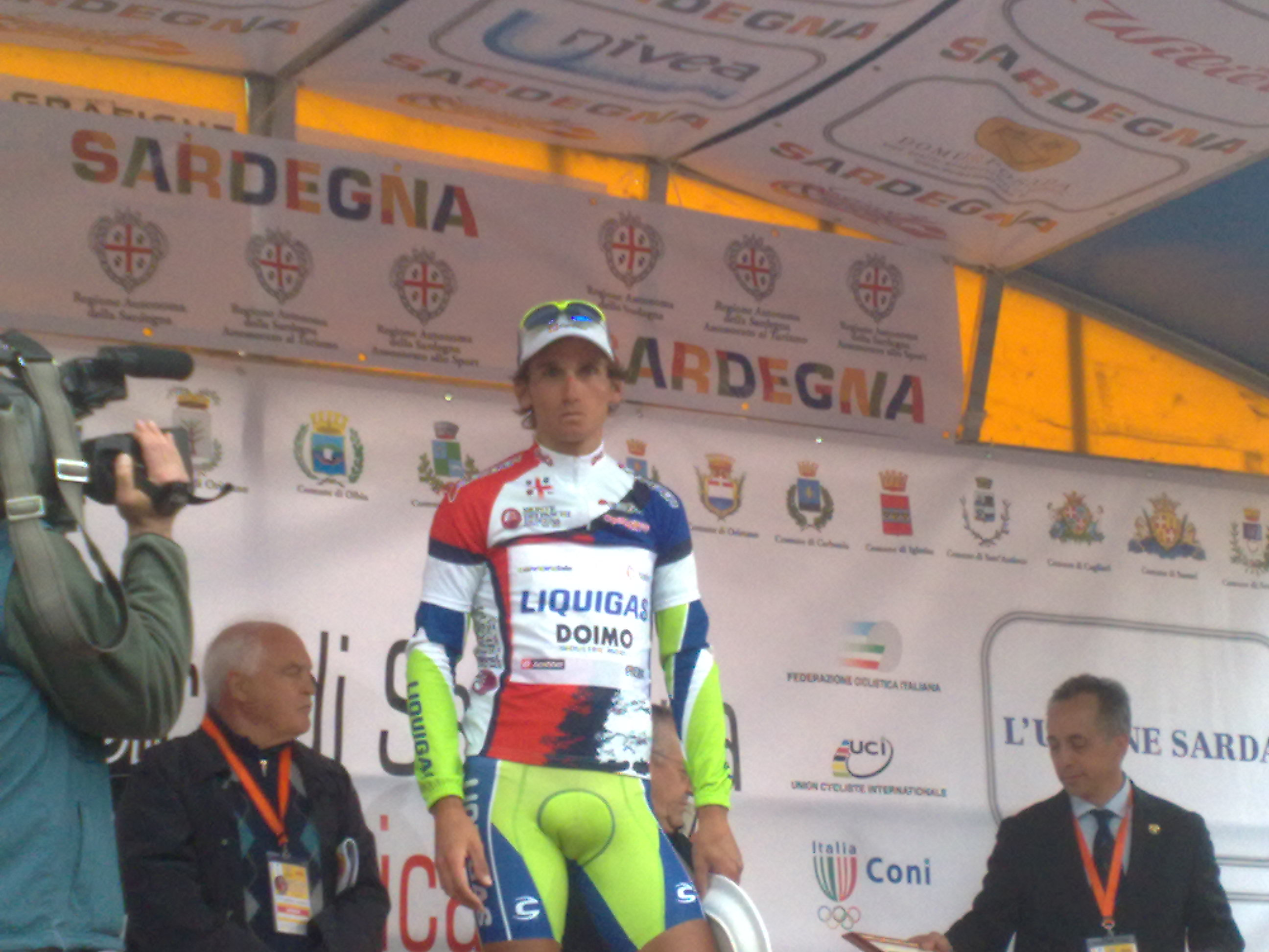 Podium of the redblue shirt of the Tour of Sardinia (cycling)